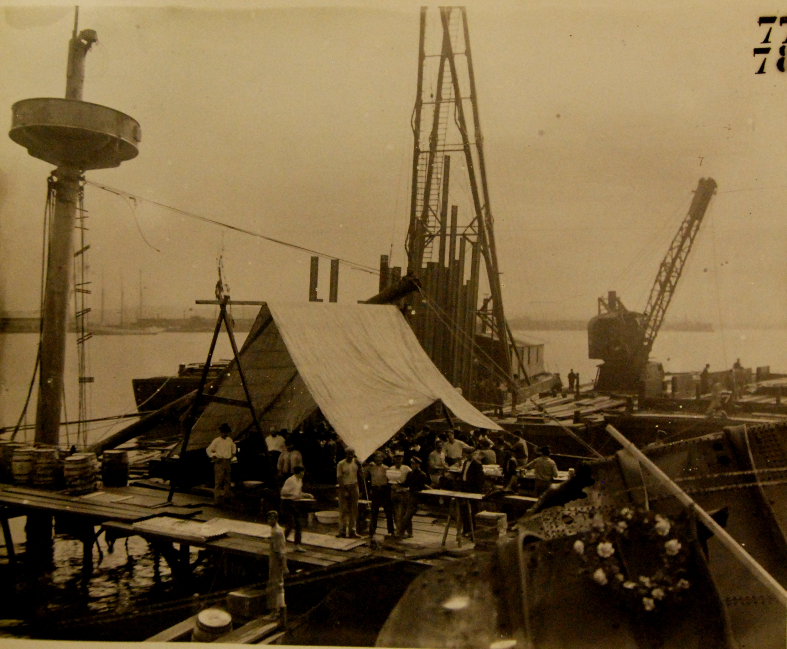 Lot 8936-3: USS Maine (ACR 1), raising her wreck in Havana Harbor, Cuba, December 20, 1910. Her mast is shown while workers prepare the cylinders. Maine exploded on February 15, 1898, and was one of the causes for the United States to enter war with Spain, Spanish-American War, April-August 1898. Transfer from the War Department, Washington. (10/2/2015).